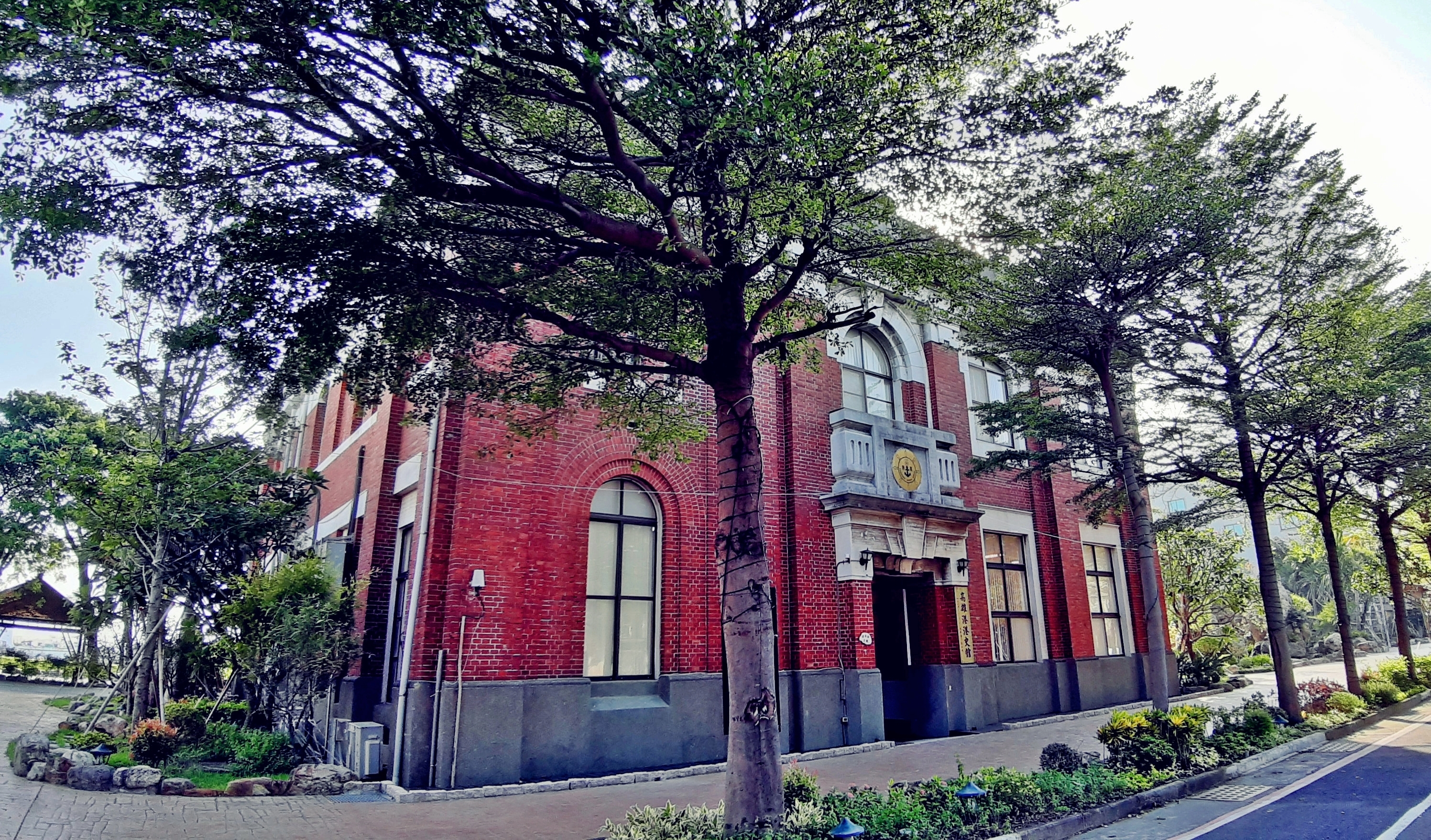 Completed in 1917, the Kaohsiung Harbor Museum is a specially designed Western-style brick building. As the Museum has been the location of several government agencies in charge of taxation, customs, maritime affairs, harbor affairs, etc, it is considered the miniature version of the contemporary development of Kaohsiung Harbor.